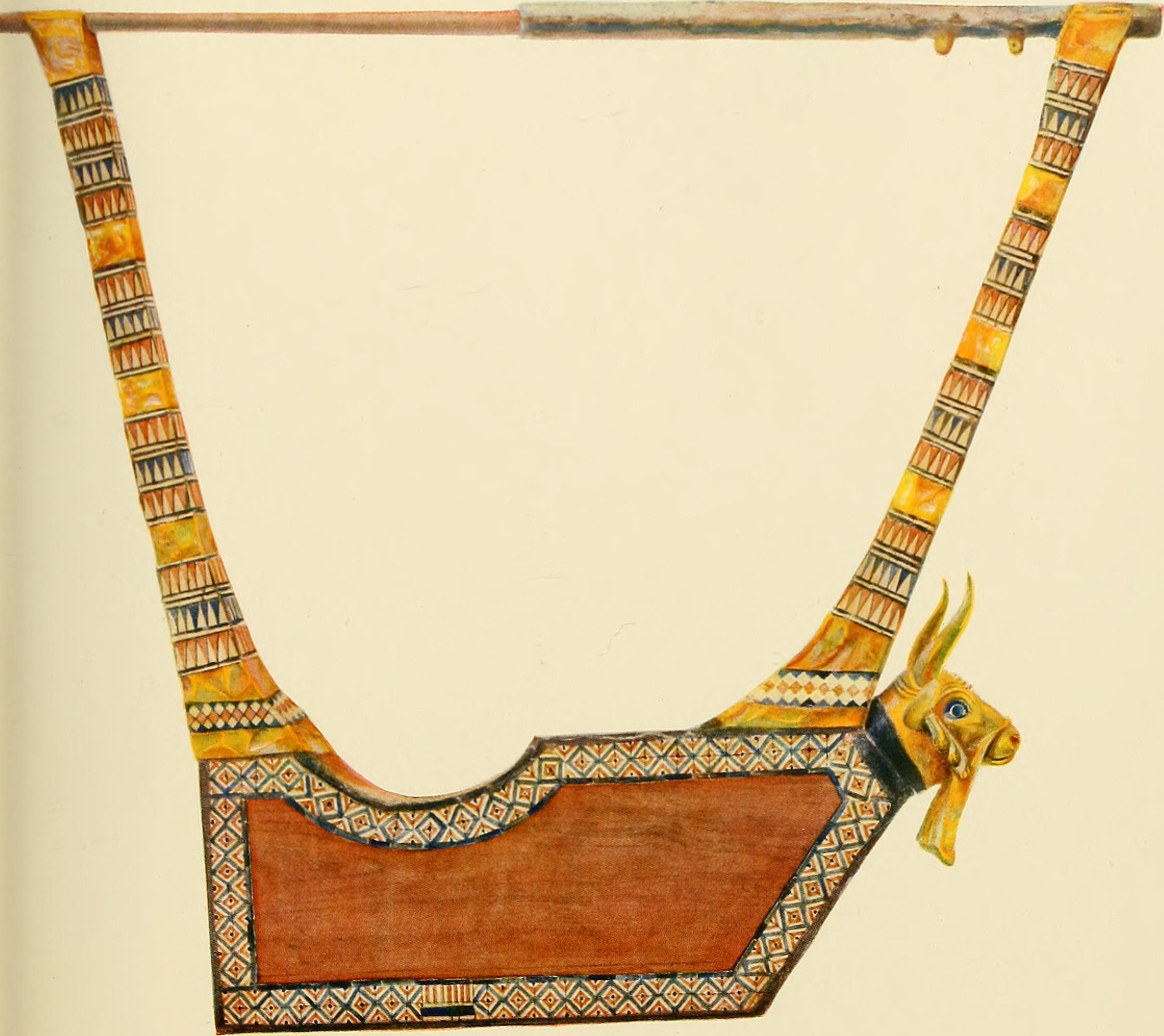 Title: Ur excavations Year: 1900 (1900s) Authors: Joint Expedition of the British Museum and of the Museum of the University of Pennsylvania to Mesopotamia Hall, H. R. (Harry Reginald), 1873-1930, ed Woolley, Leonard, Sir, 1880-1960 Legrain, Leon, 1878- ed Subjects: Publisher: (n.p.) Pub. for the Trustees of the Two Museums by the aid of a grant from the Carnegie Corporation of New York Text Appearing Before Image: b. U. 12353. THE MOSAIC BORDER OF THE LYRES SOUND-BOX AS REMOVED FROM THE SOIL Scale c. \. V. p. 252 PLATE 114 Text Appearing After Image: U. 12353. THE GOLD LYRE FROM THE GREAT DEATH-PIT, PG/1237Scale c. j3j (ht. 1-20 m.) v. p. 252 M. Louise Baker pinx. PLATE 115